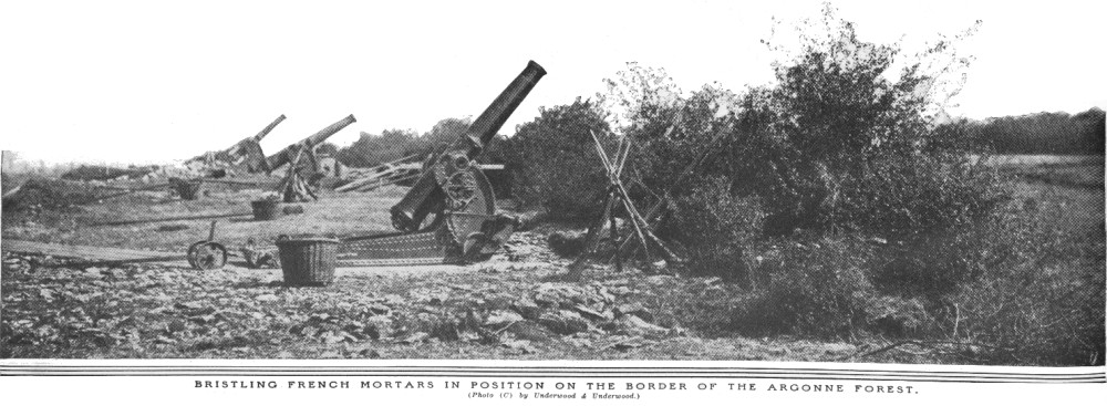 New York Times caption : "Bristling French mortars in position on the border of the Argonne forest". Comment: the howitzer looks like 155 mm De Bange "short gun", rifles can also be seen "piled" in the centre foreground.